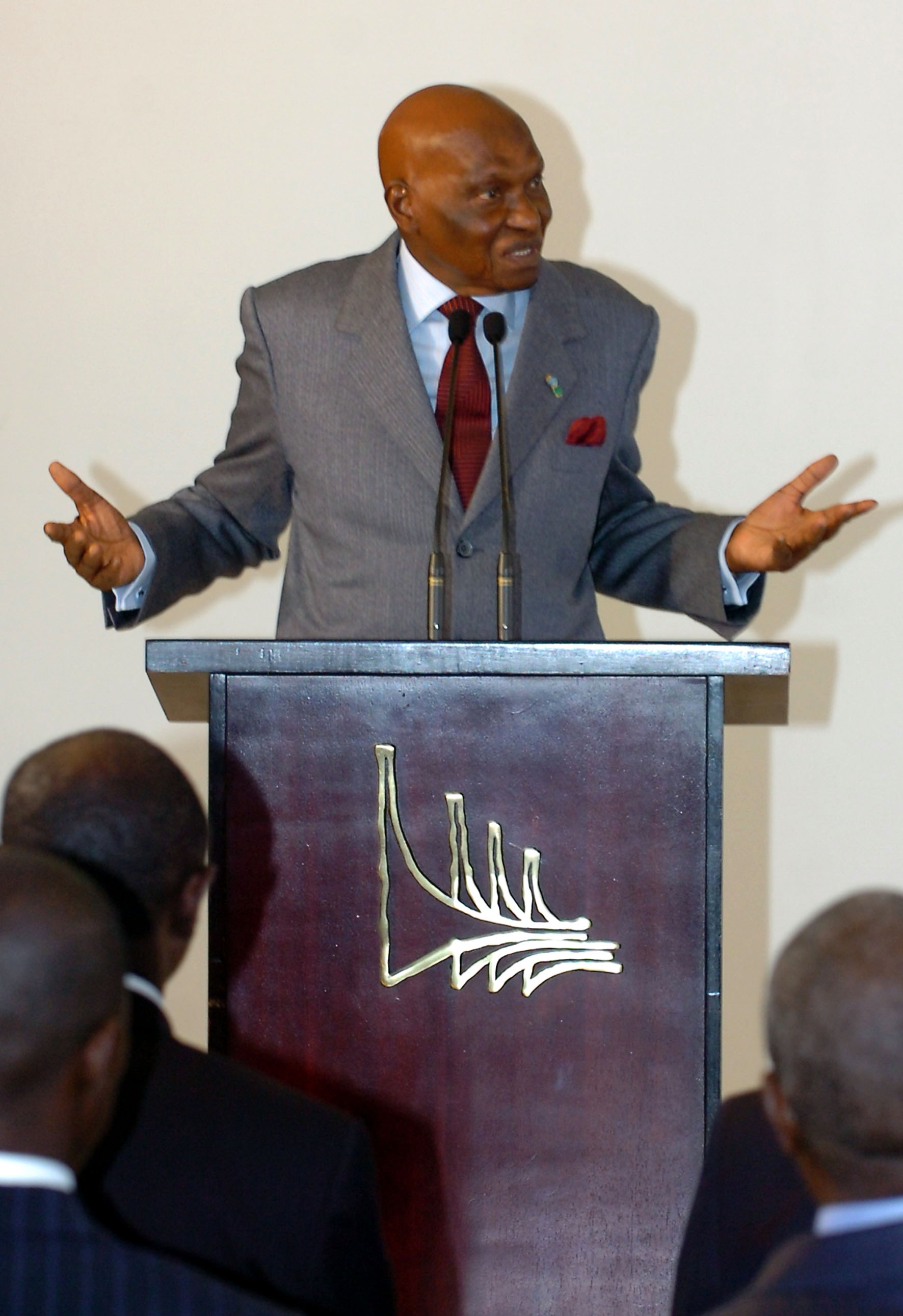 Abdoulaye Wade, President of Senegal, at a press conference after a meeting with Brasilian president Lula da Silva